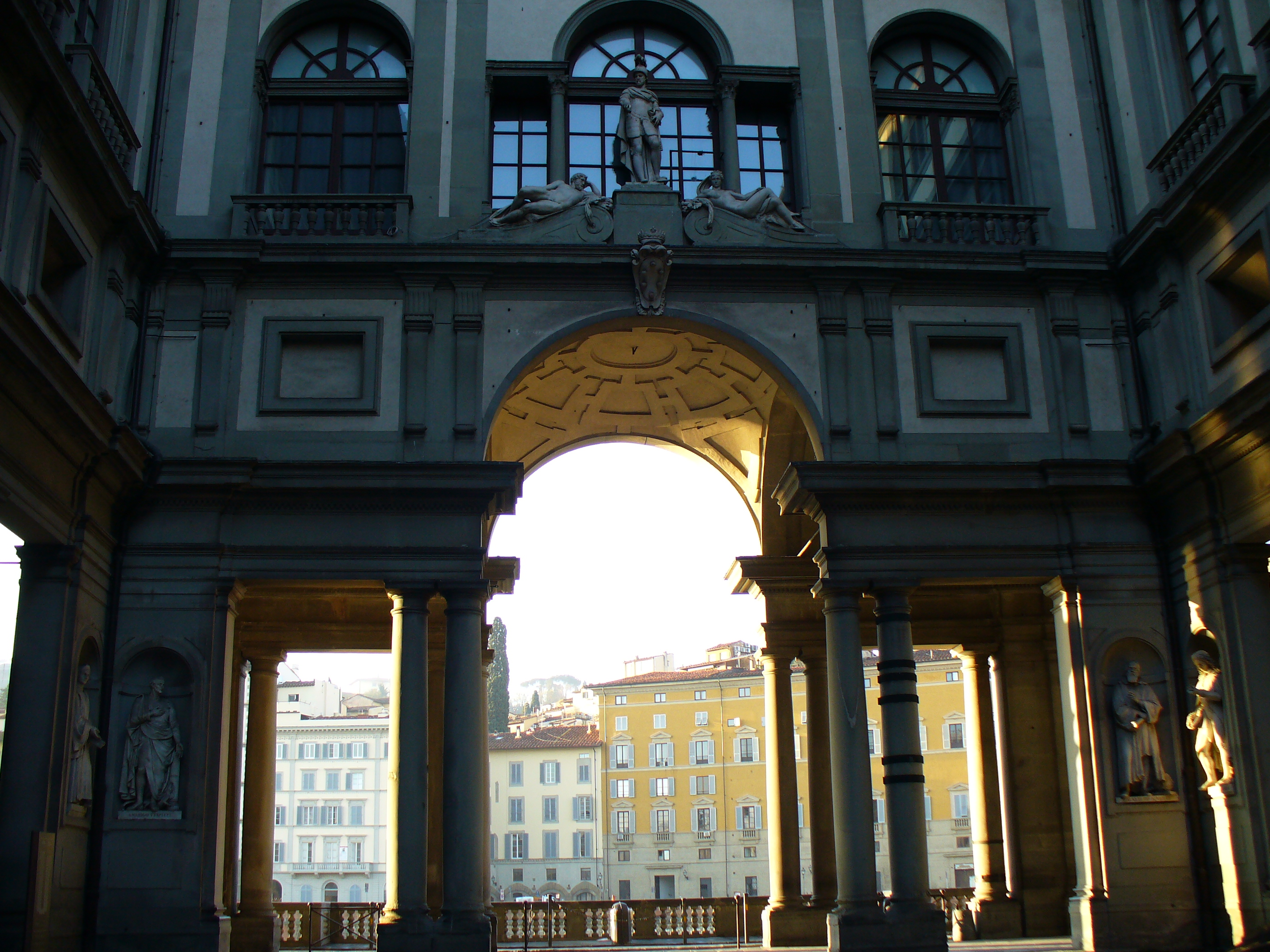 Uffizi